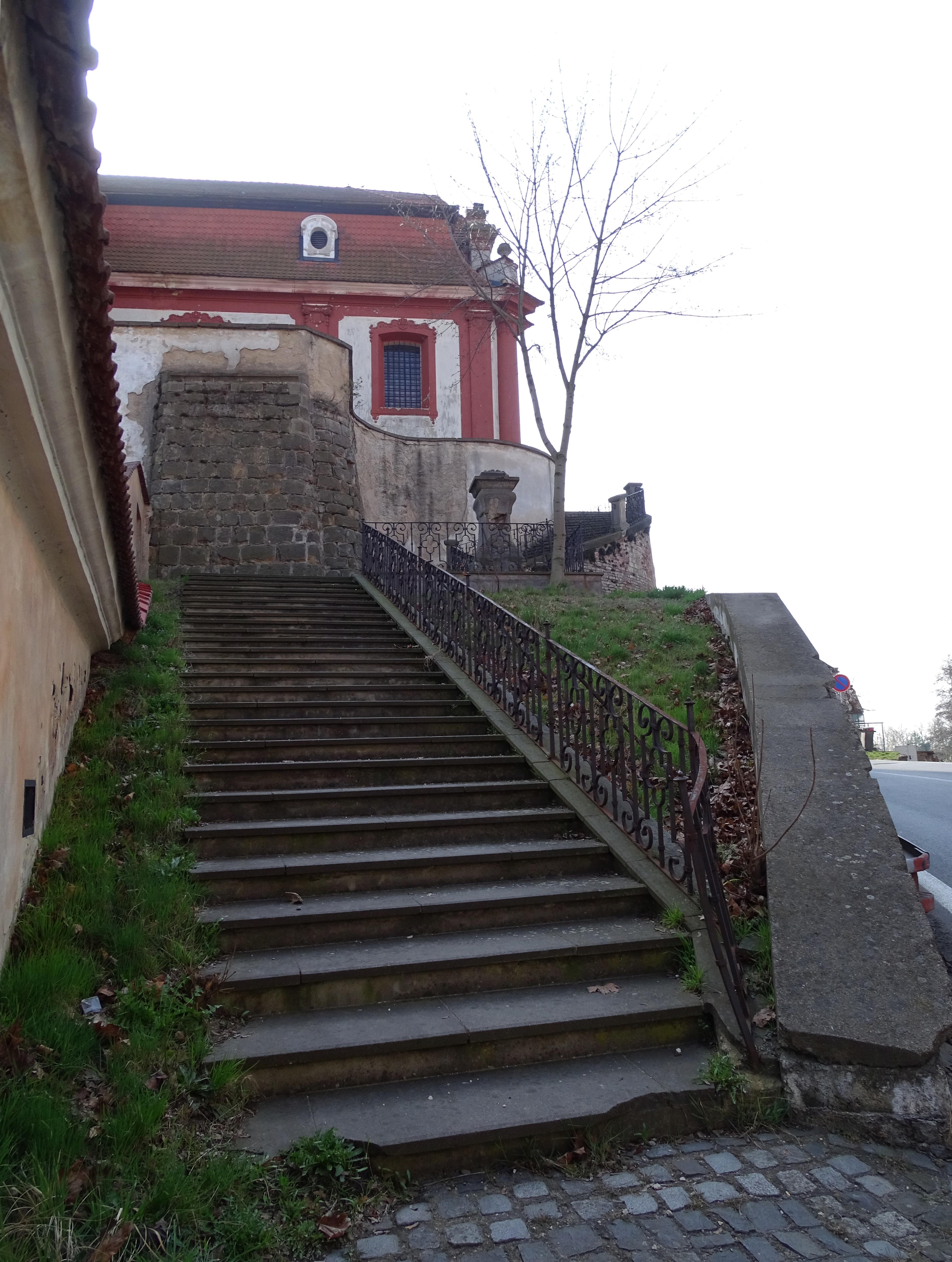 Liběchov, Mělník District, Central Bohemian Region, Czech Republic. A staircase to the church of Saint Gall.